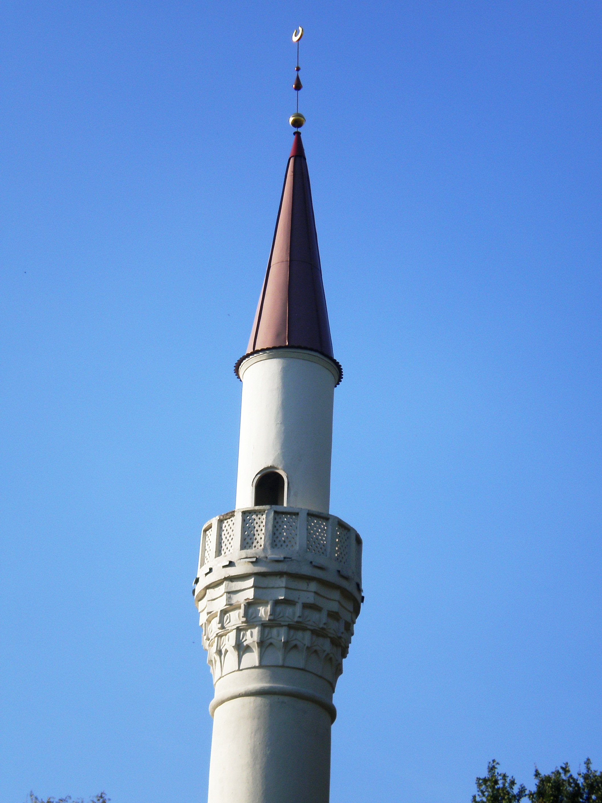 Kėdainiai minaret. Balcony and the Islamic Crescent Moon.